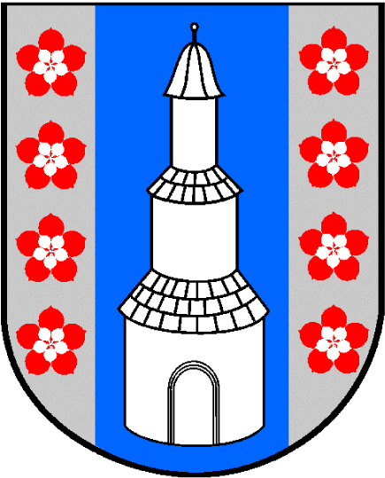 Coat of arms of Sinabelkirchen, Styria